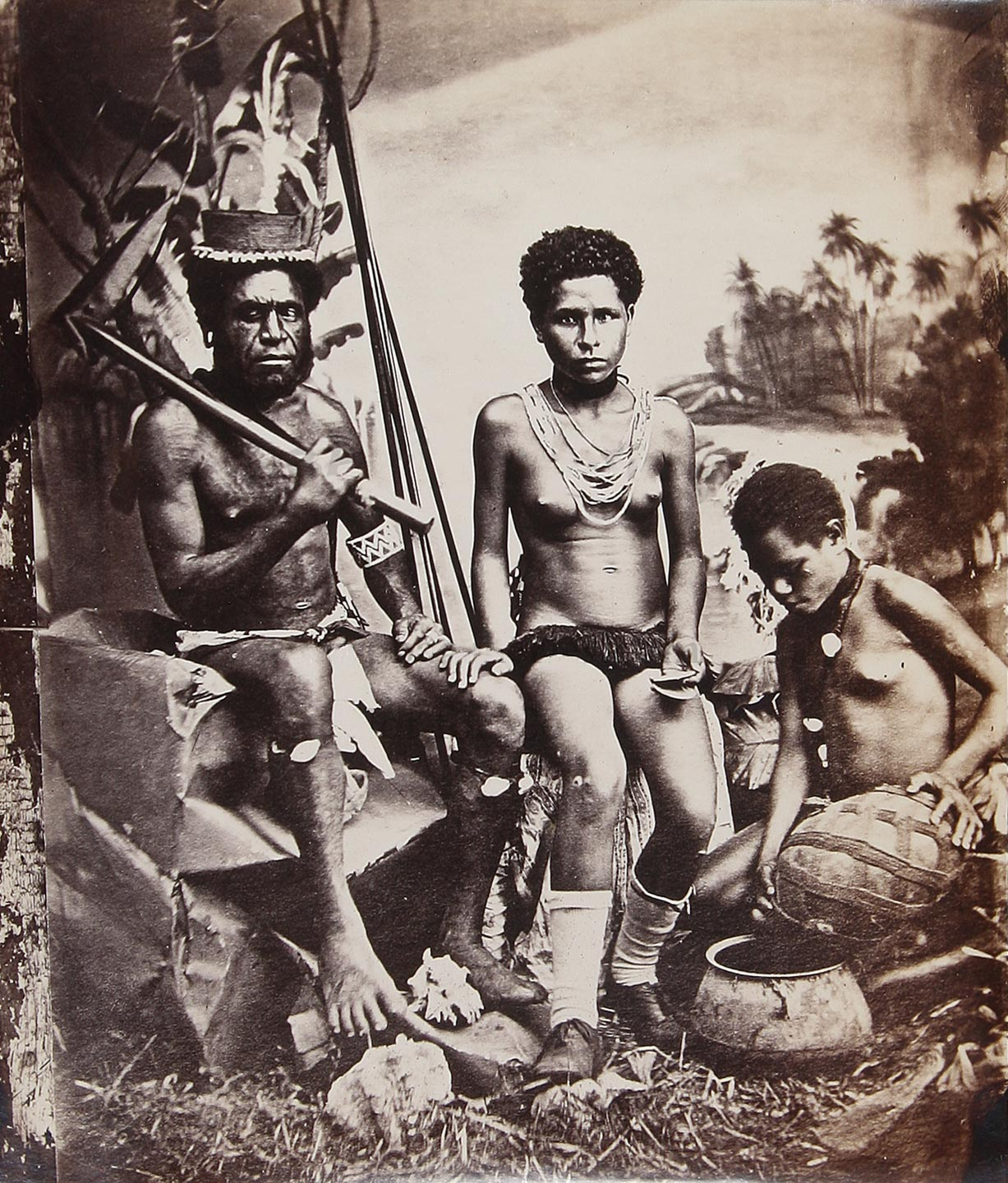 King Jacques and his Queen. St. Vincent, New Caledonia.